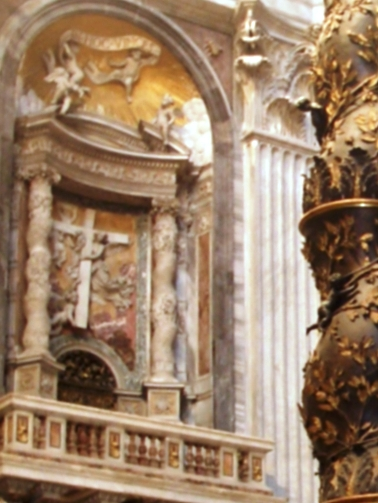 Constantine's columns in their present day location on a pier in St. Peter's. Part of Bernini's Baldacchino, inspired by the original columns, is in the foreground.